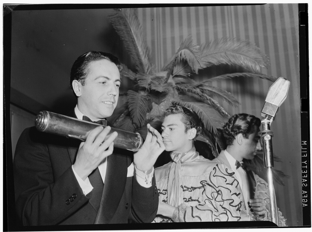 Enric Madriguera Gottlieb, William P., 1917-, photographer. Enric Madriguera, New York, N.Y.(?), ca. June 1947] 1 negative : b&w ; 3 1/4 x 4 1/4 in. Notes: Gottlieb Collection Assignment No. 251 Reference print available in Music Division, Library of Congress. Purchase William P. Gottlieb Forms part of: William P. Gottlieb Collection (Library of Congress). In: "Posin'," Down Beat, v. 14, no. 12 (June 4, 1947), p. 21. Subjects: Madriguera, Enric Jazz musicians--1940-1950. Latin jazz--1940-1950. Composers--1940-1950. Percussionists--1940-1950. Format: Portrait photographs--1940-1950. Cityscape photographs--1940-1950. Film negatives--1940-1950. Rights Info: Mr. Gottlieb has dedicated these works to the public domain, but rights of privacy and publicity may apply. Repository: (negative) Library of Congress, Prints & Photographs Division, Washington D.C. 20540 USA, (reference print) Library of Congress, Music Division, Washington D.C. 20540 USA, Part Of: William P. Gottlieb Collection (DLC) 99-401005 General information about the Gottlieb Collection is available at Persistent URL: Call Number: LC-GLB13- 0590